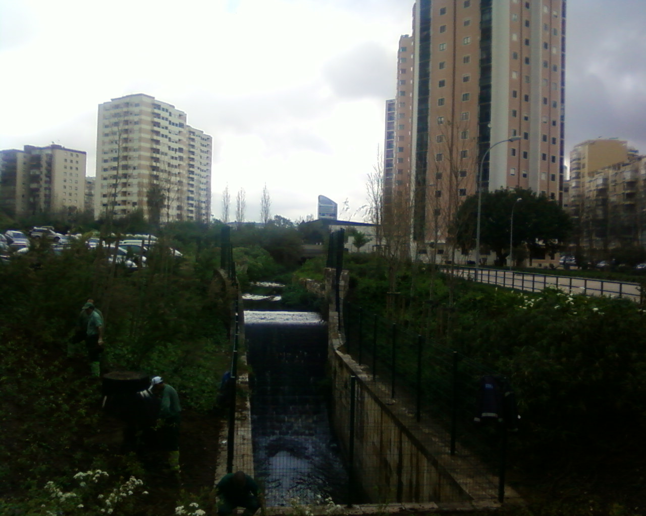 Algés river, with Monsanto tower in the background, where it begins its underground run to the sea